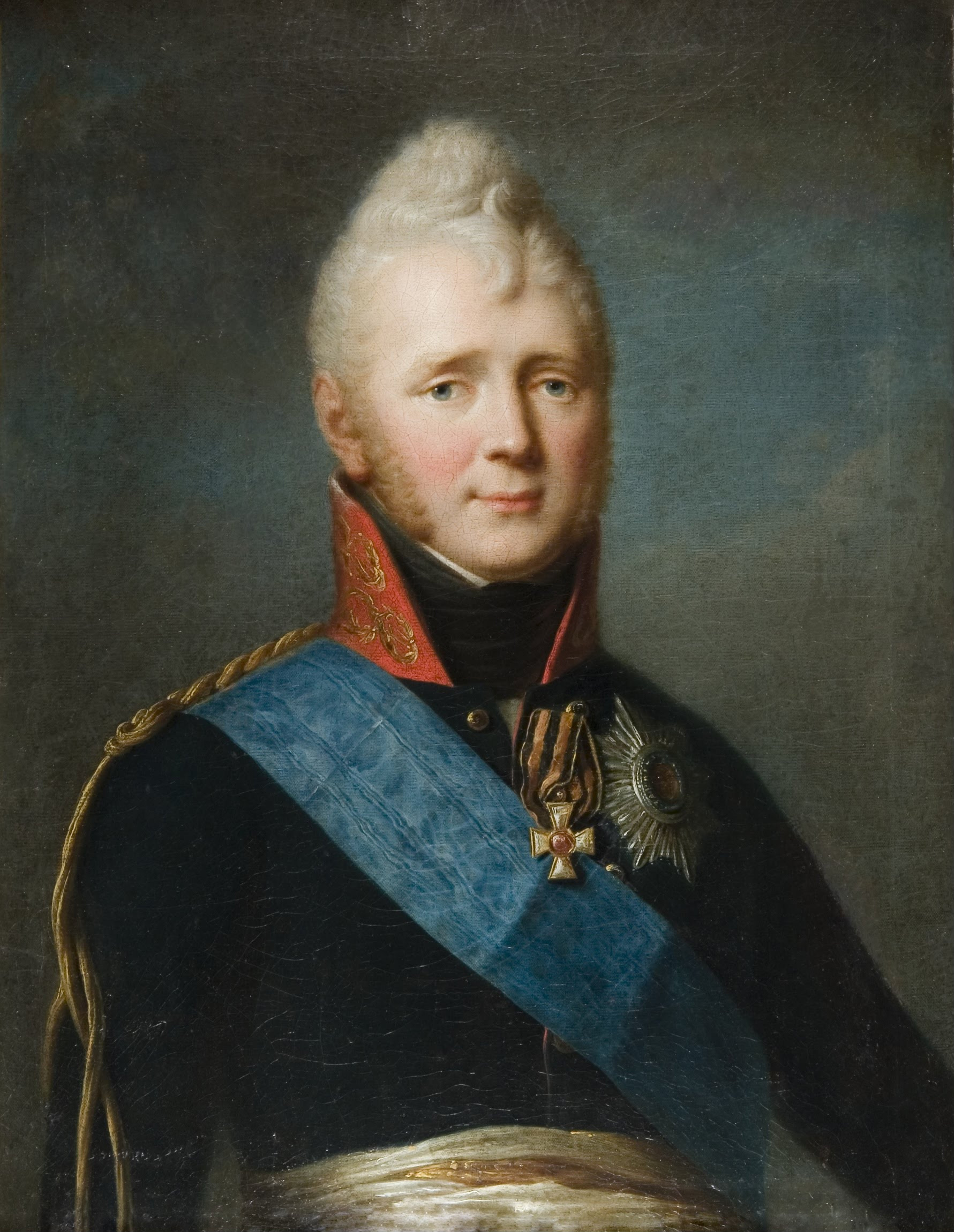 Portrait of Emperor Alexander I. S.S. Shchukin. 19th century. Ministry of Culture of the Russian Federation, via Google Cultural Institute